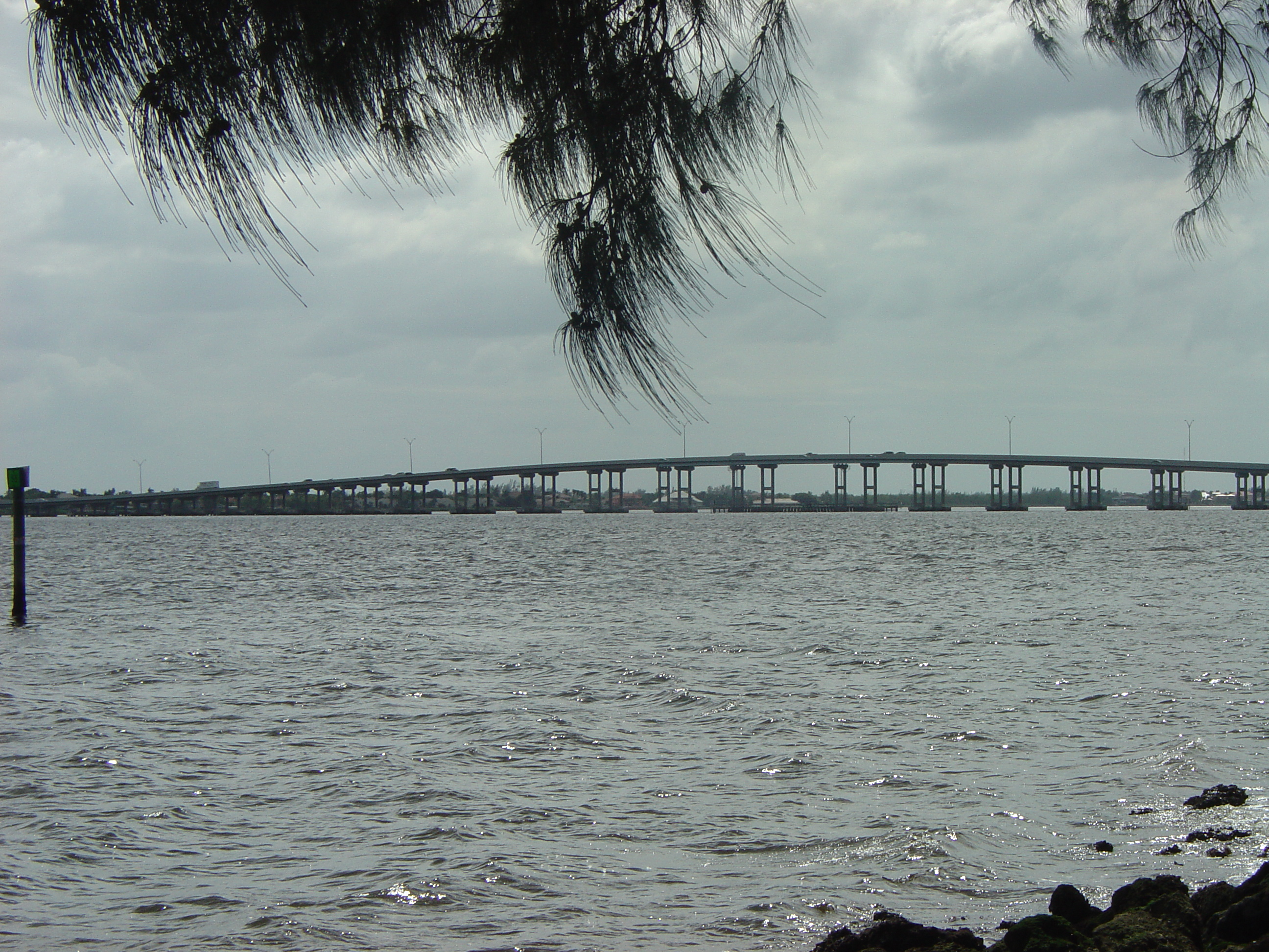 Distant shot of the Cape Coral Bridge between Fort Myers and Cape Coral, Florida.